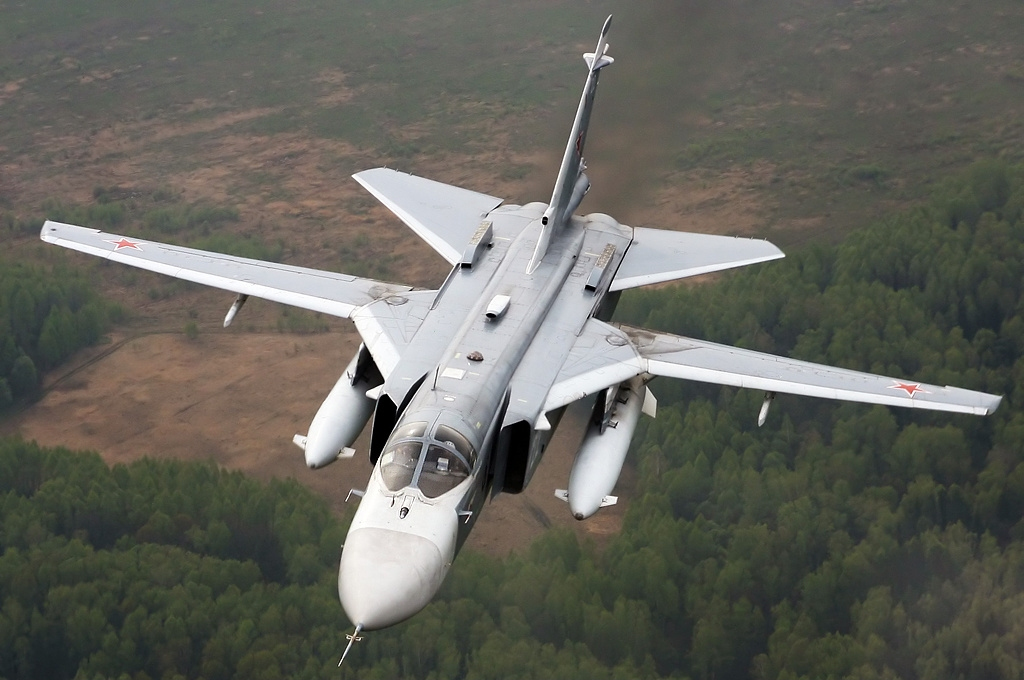 Sukhoi Su-24M of the Russian Air Force inflight